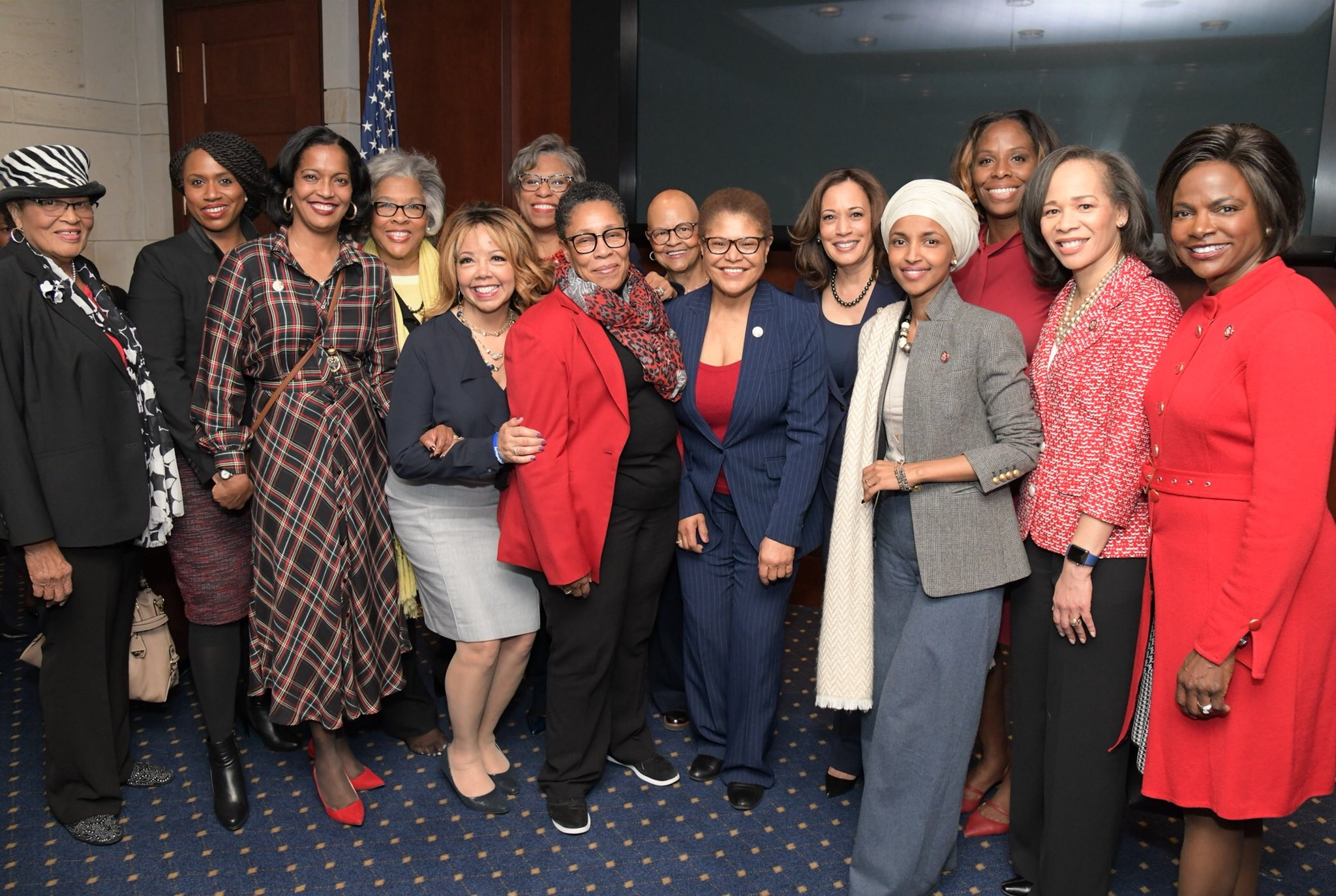 The Congressional Black Caucus now has the most members in its history, thanks in part to these amazing newly-elected women.